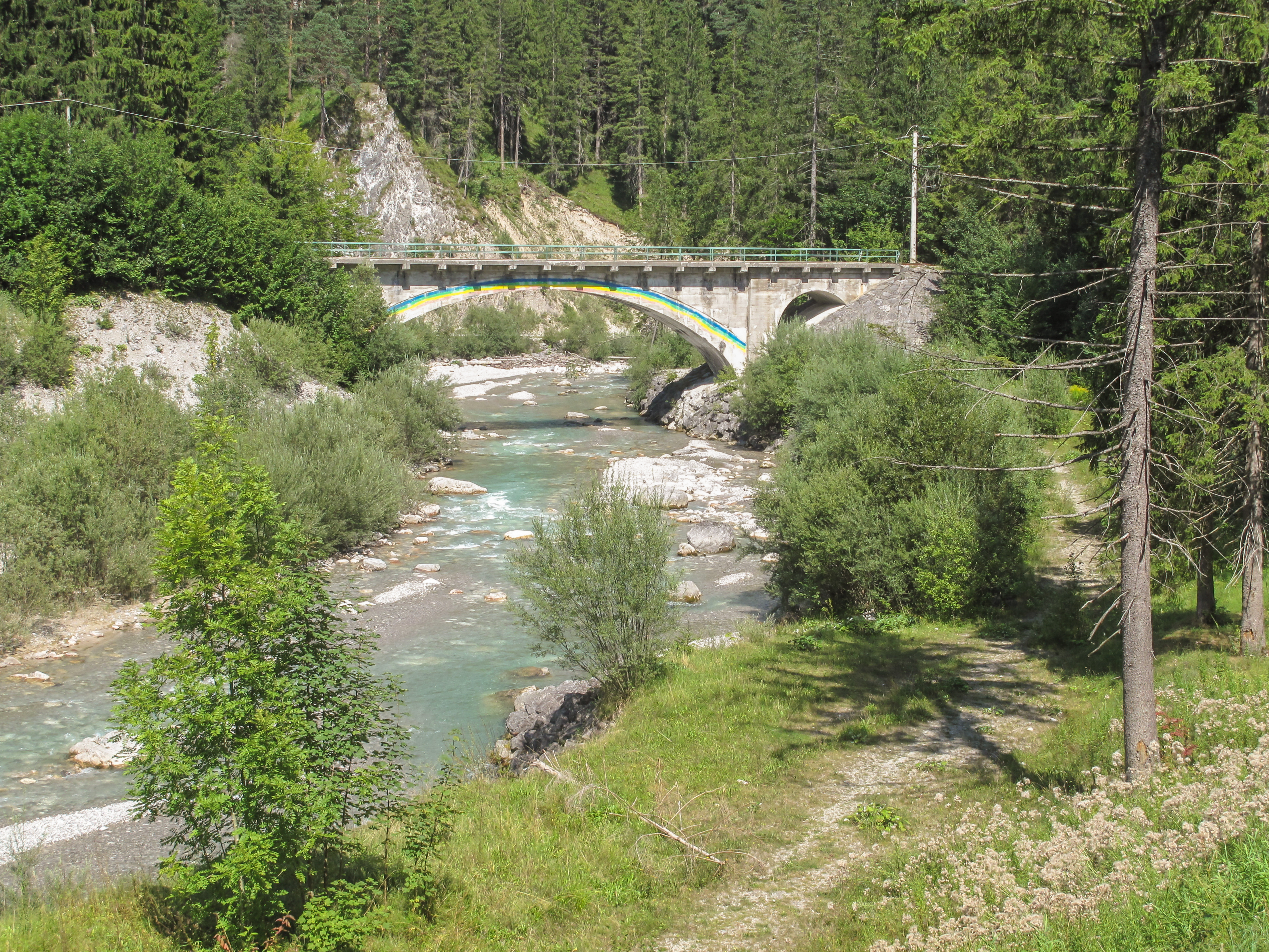 between the border and Grainau, view from the street